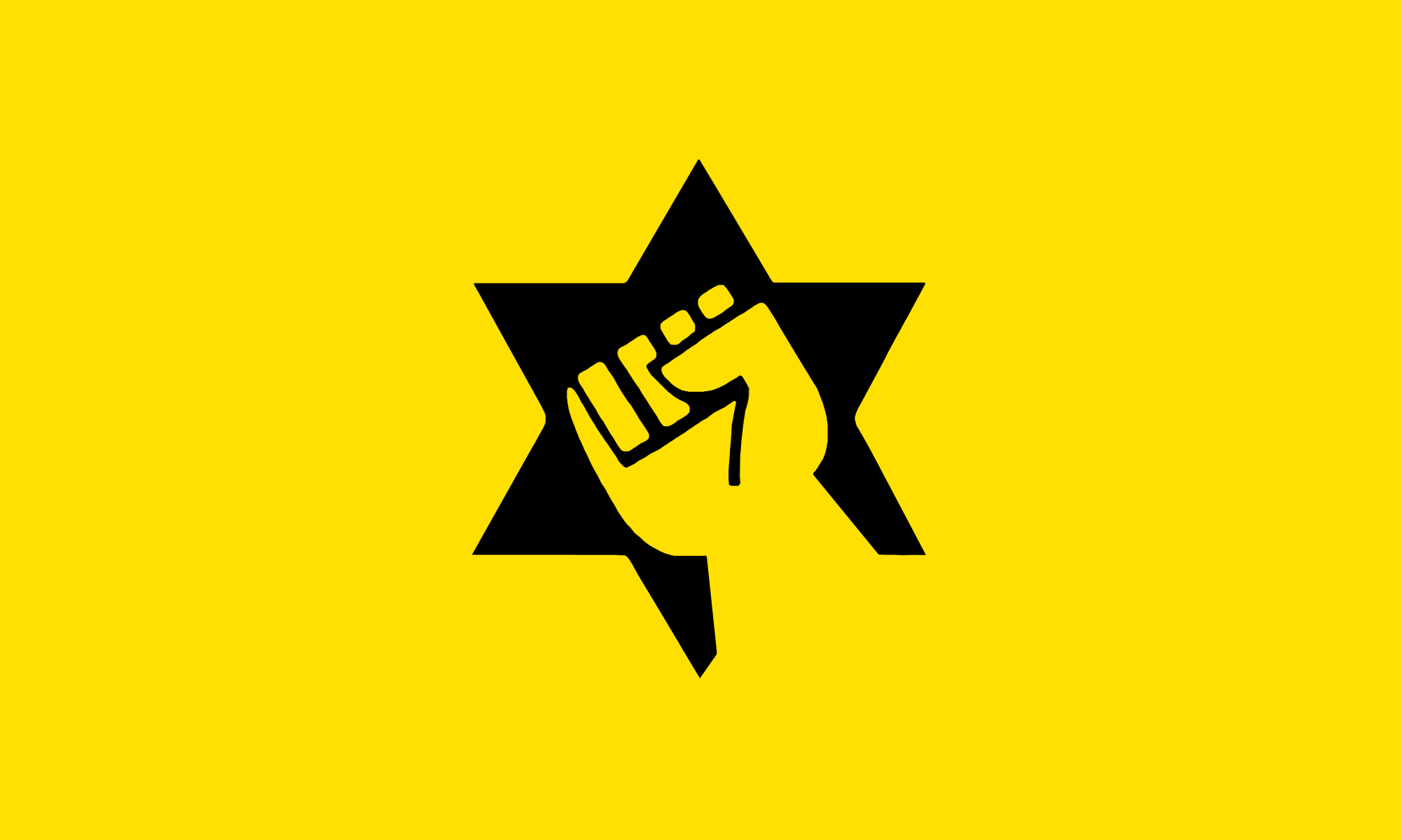 Flag of the Kach movement.